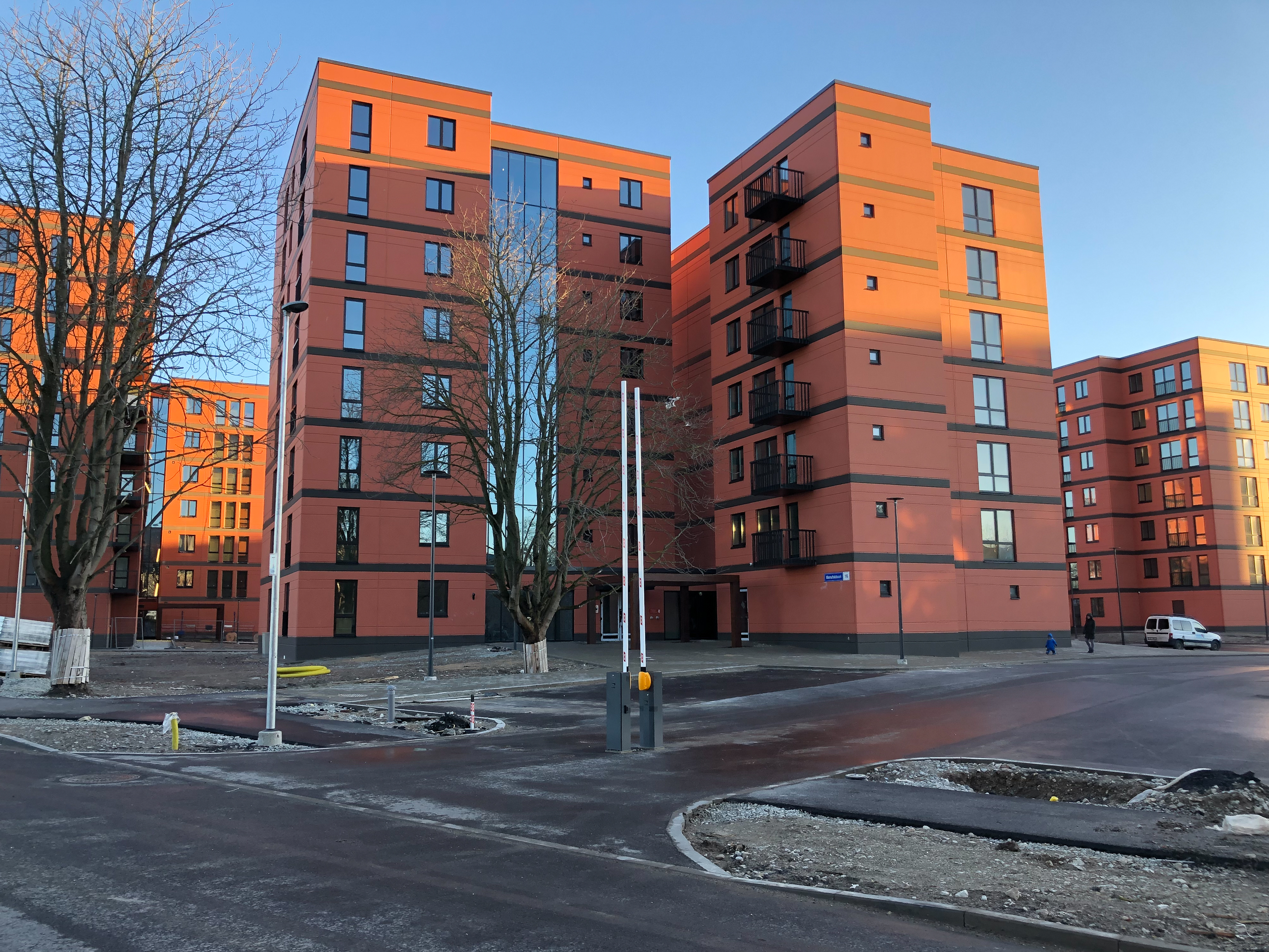 Appartmend houses in Manufaktuuri Street (territory of the former Baltic Cotton Spinning & Weaving Manufactory), Sitsi subdistrict (Tallinn), 31 March, 2019.